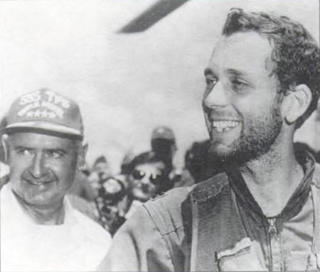 Captain Roger Locher returns to Udorn Air Force Base in Thailand, greeted by General John W. Vogt, Seven Air Force Commander. Locher was retrieved from behind enemy lines only 60 miles (97 km) from Hanoi after 23 days evading capture. Digital version available Fast Movers